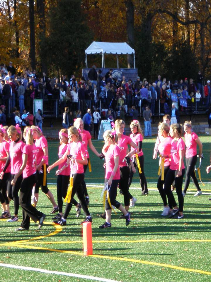 Vortex4id took this photo during the 2011 Blondes vs. Brunettes Charity Powderpuff Football Game played at George Washington University, Washington, D.C.